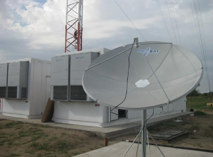 Digital terrestrial station for usage of Open Digital Television Systems. In the foreground, the satellite receiving antenna required for transportation of television signals is shown.